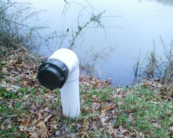 A dry fire hydrant. It is a hard pipe with a connection on the visible portion that allows a fire truck to pump water from the lake. A strainer on the under water portion (not visible) prevents debris from entering.